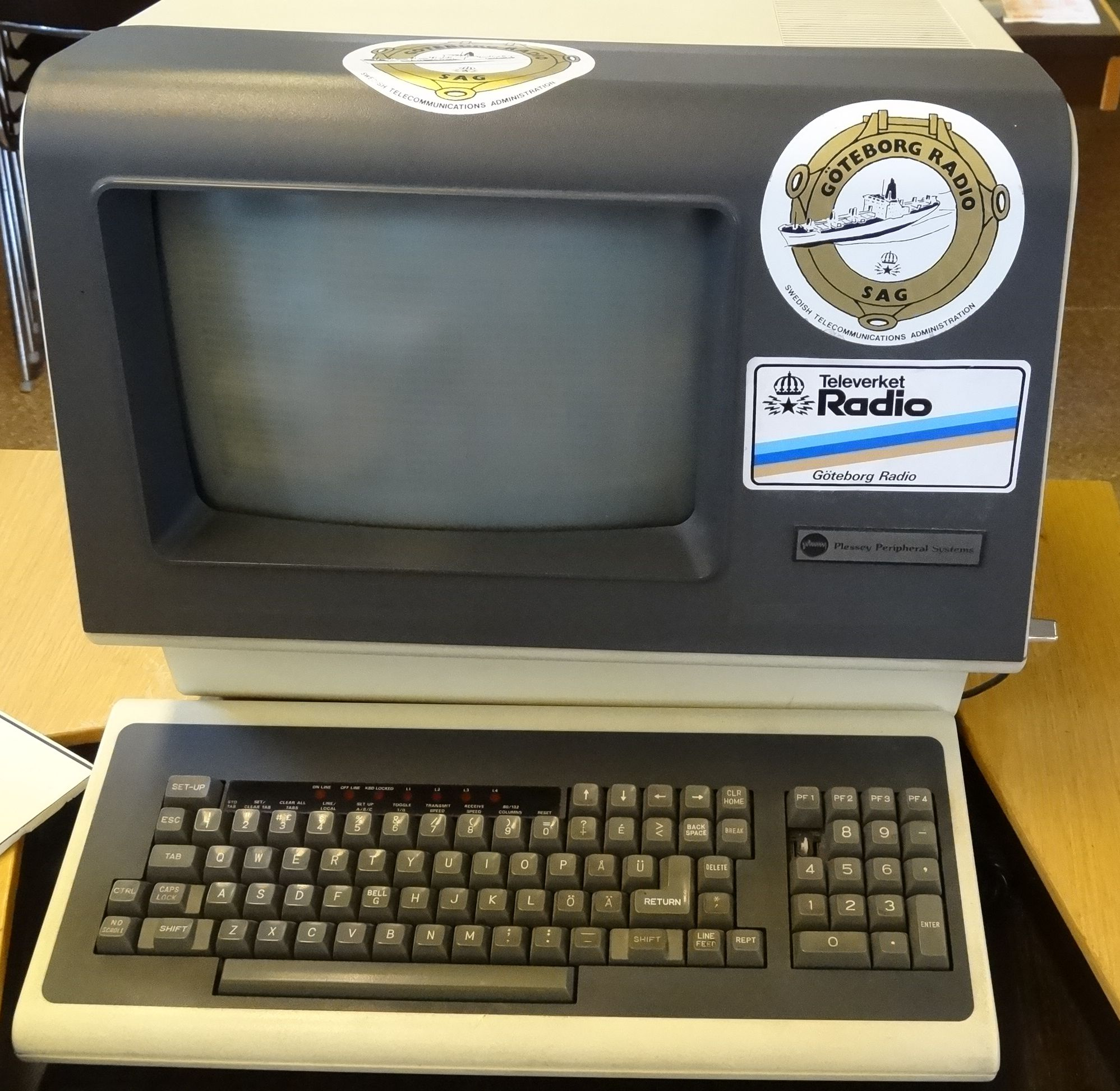 Computerterminal to the old information system InfoSAG, at Göteborg radio museum.